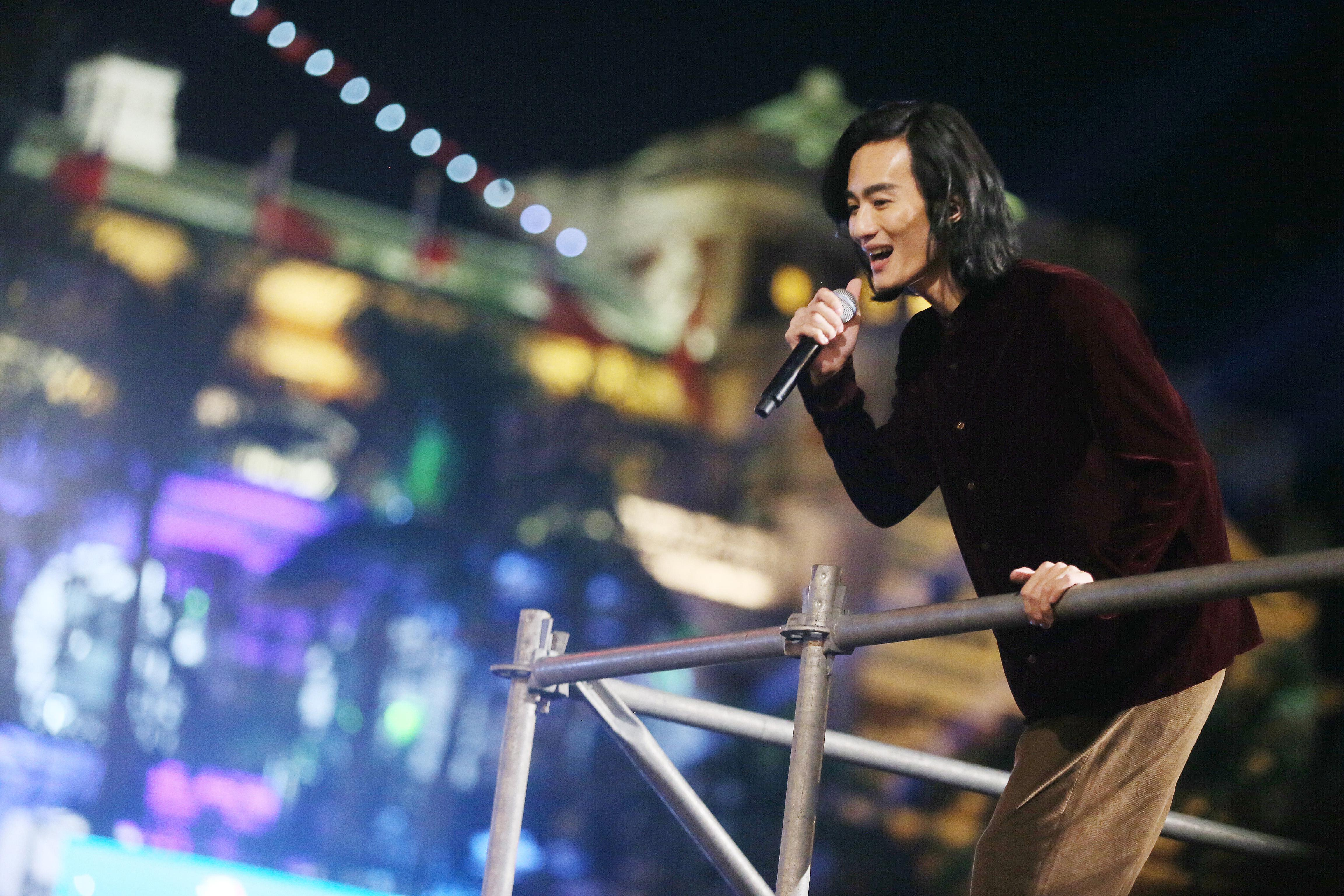 Yinghung Lee, aka DJ Didilong, performs on the DJ stage at the music concert before the flag-raising ceremony. (The ROC’s 2017 New Year flag-raising ceremony in front of the Presidential Office Building, 2017/01/01) 授權方式及範圍：中華民國總統府│政府網站資料開放宣告 Authorization Method & Scope: Office of the President, Republic of China (Taiwan) | Government Website Open Information Announcement